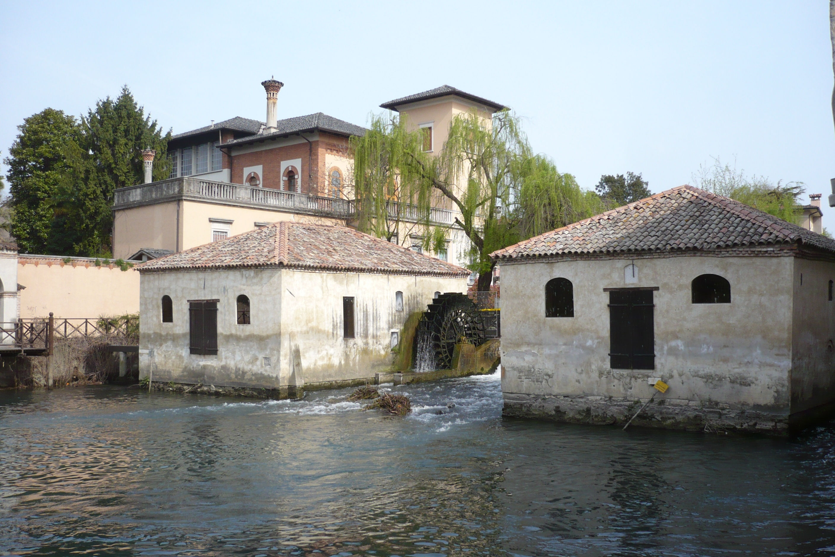 The mills in Portogruaro, Italy.